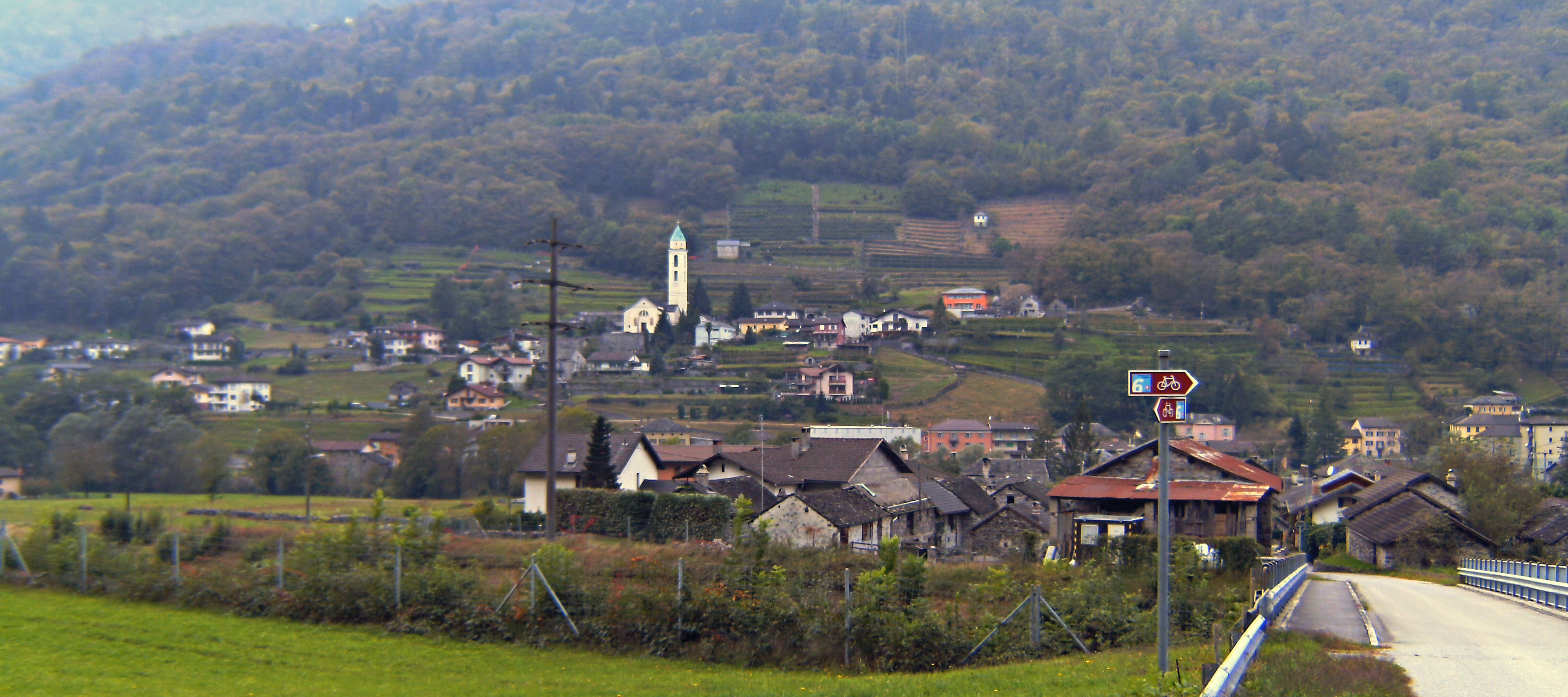 Cama (in front) and Verdabbio (background)